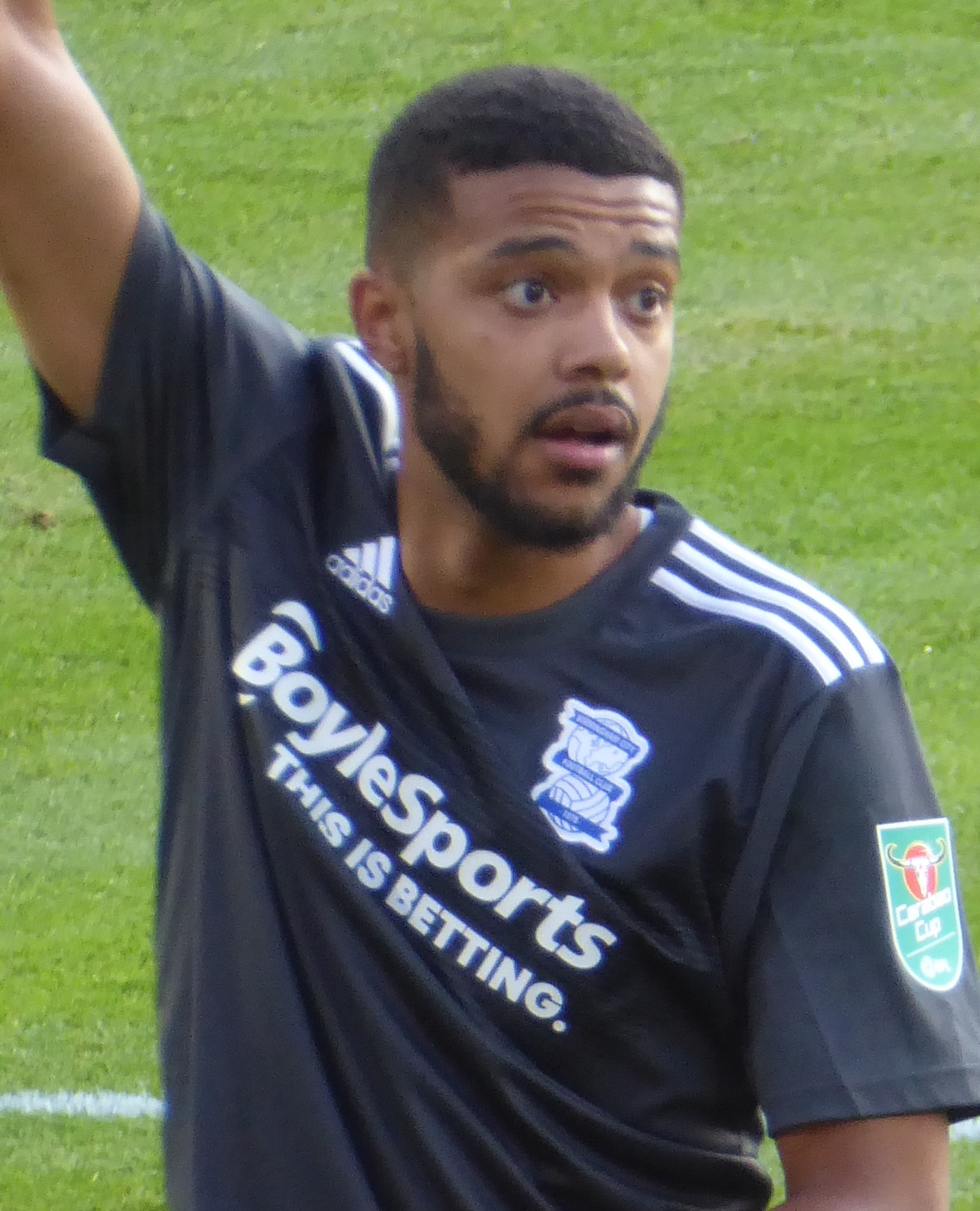 Jake Clarke-Salter during his Birmingham City debut in the EFL Cup match against Portsmouth at Fratton Park on 6 August 2019